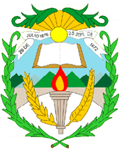 Coat of arms of this department of Guatemala Permission